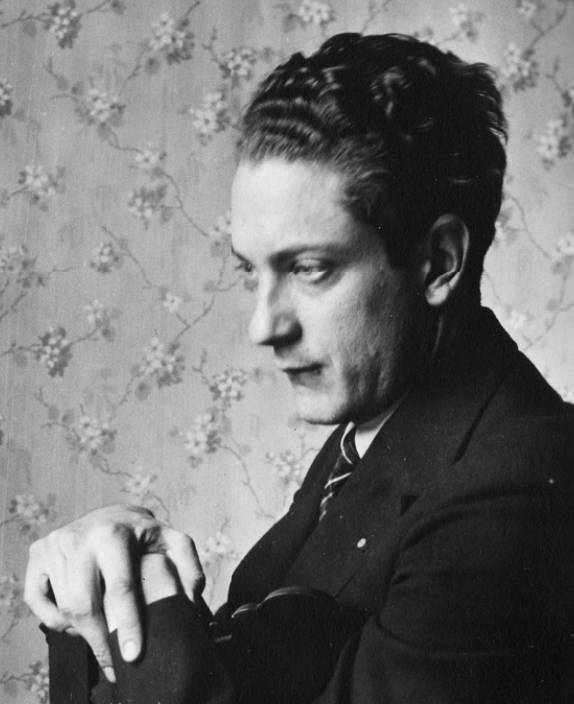 In 1920s, Count Byron Khun De Prorok (b. 1896) was director of archeological excavations in Carthage; author of Dead Men Do Tell Tales Full description